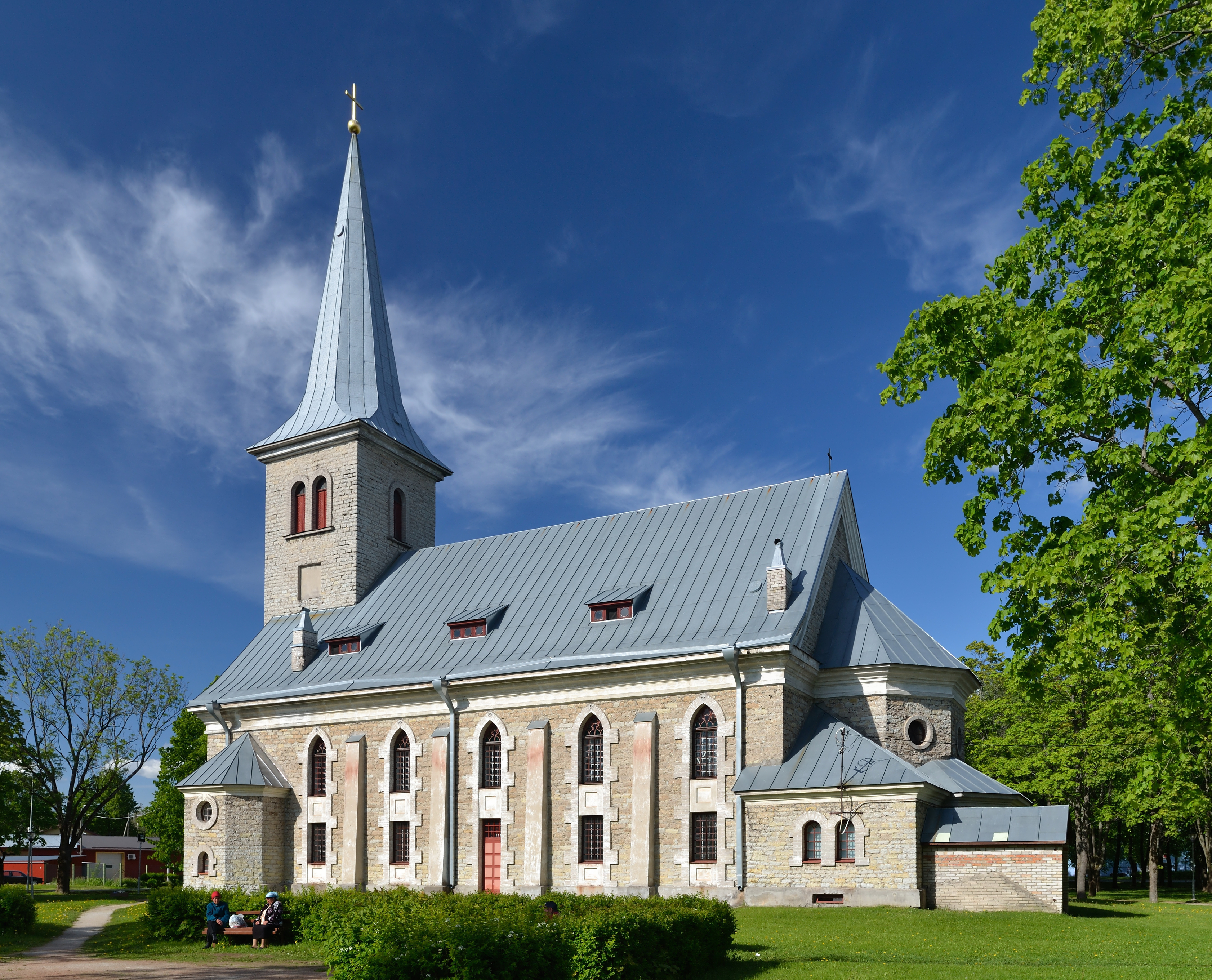 St. Jacob's Church in Tapa, built in 1932.